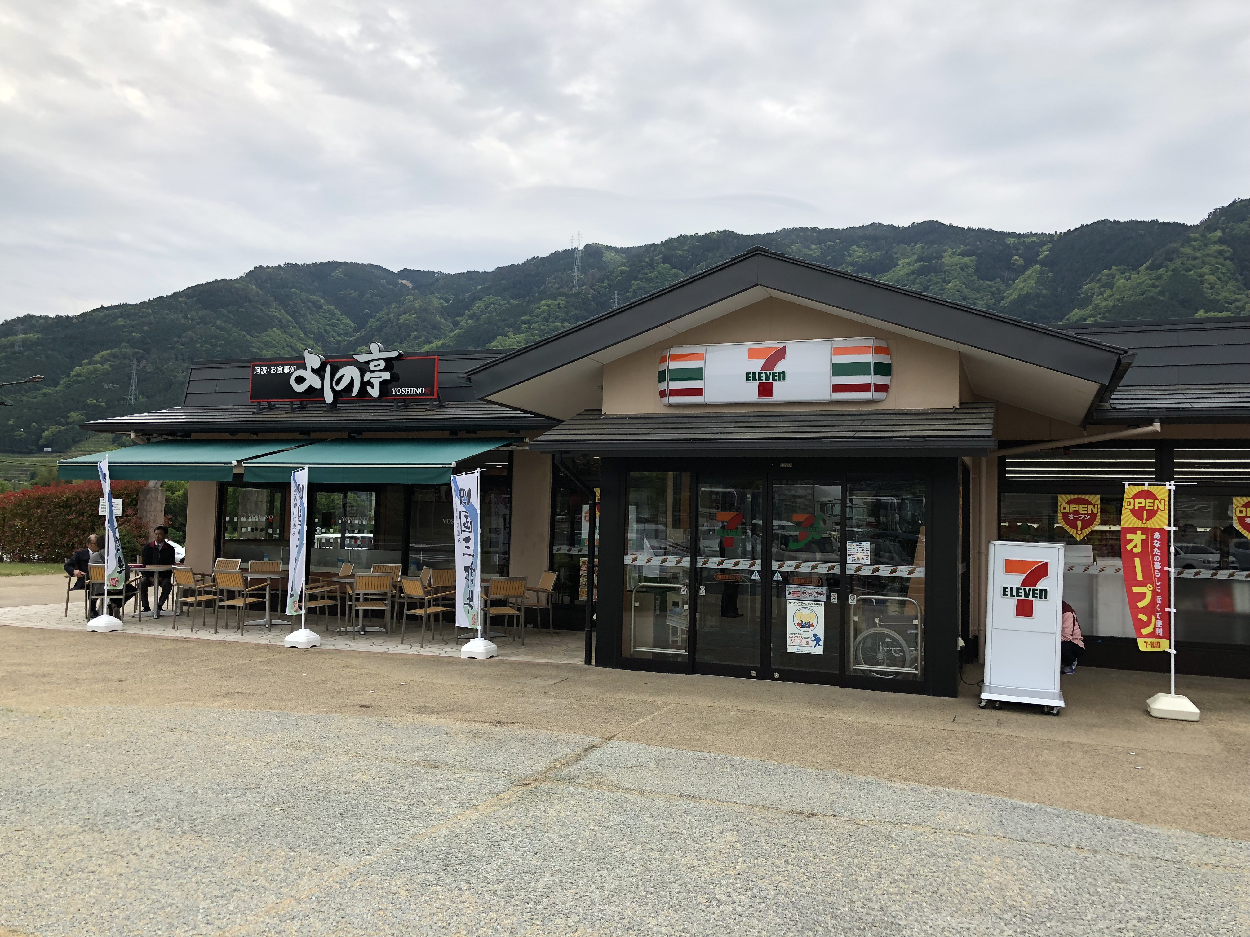 Yoshinogawa